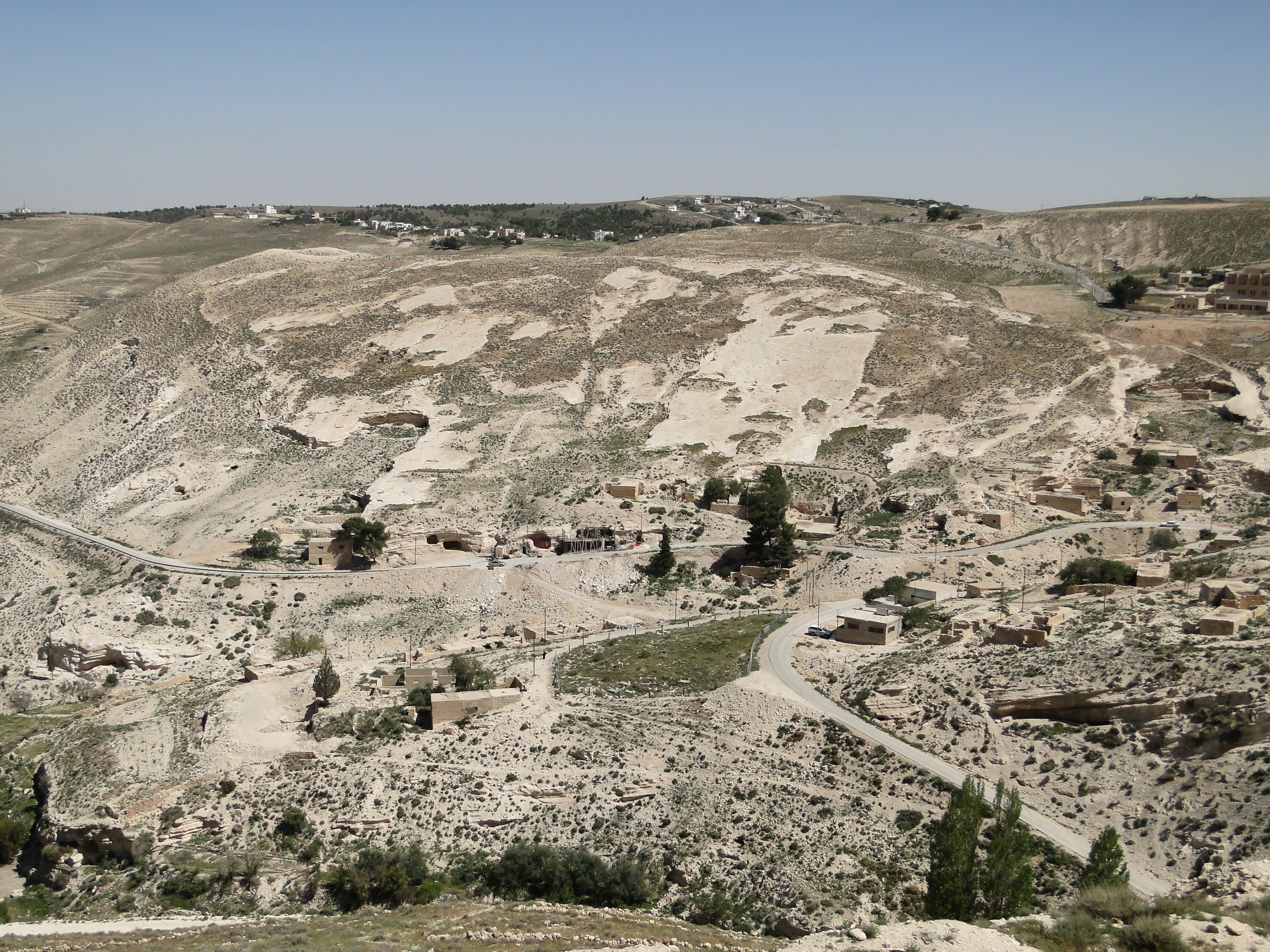 View from Montreal Castle, Shoubak, Jordan